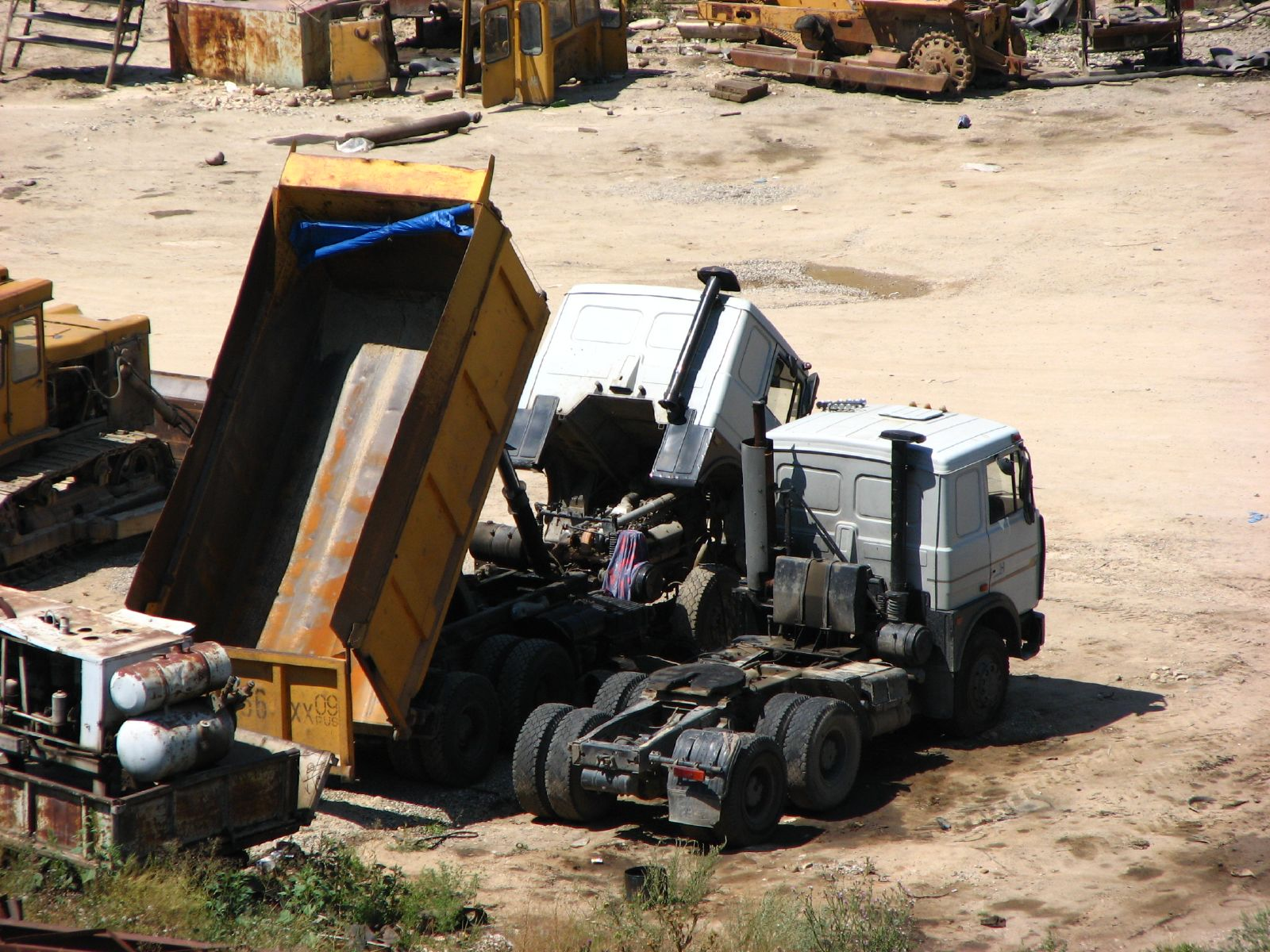 Tipper lorries in Karachay-Cherkessia in August 2007.